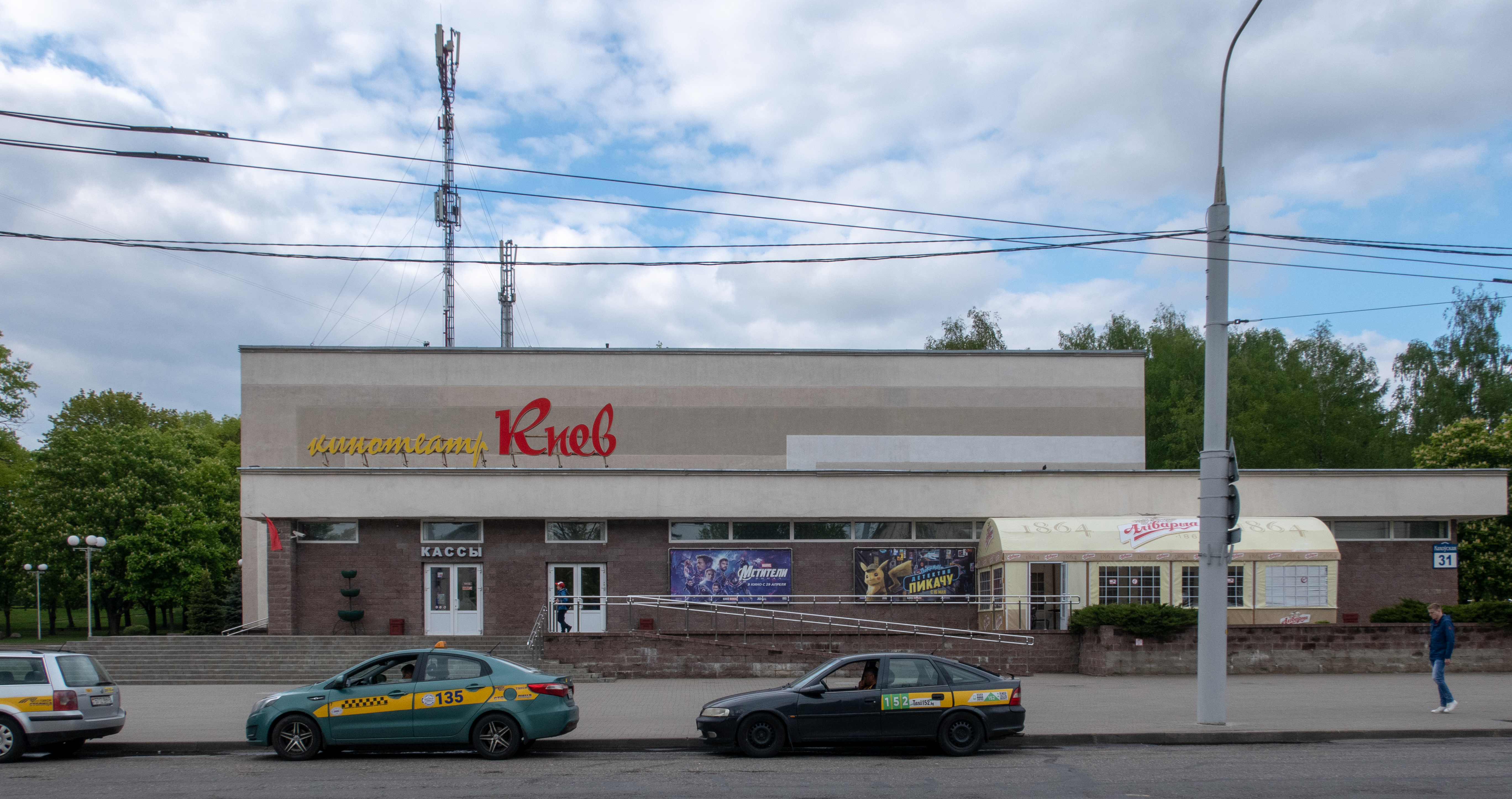 Cinema "Kyiv" ("Kiev") (Minsk, Belarus)